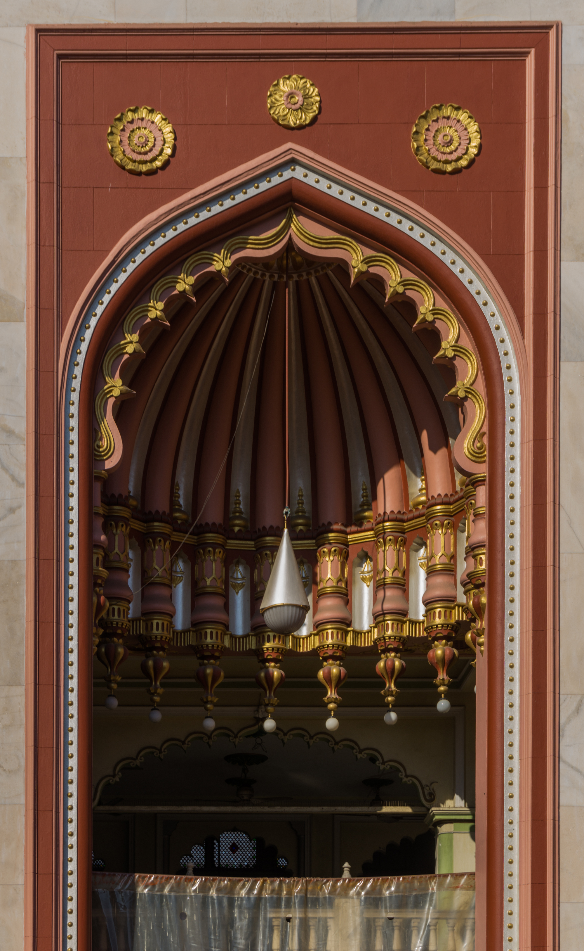 Gateway of Nakhoda Masjid, Calcutta's biggest mosque.